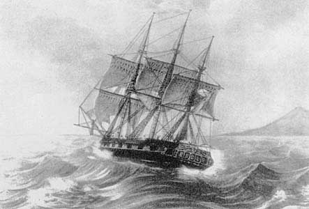 Sailing ship Nadezhda of Adam Johann von Krusenstern